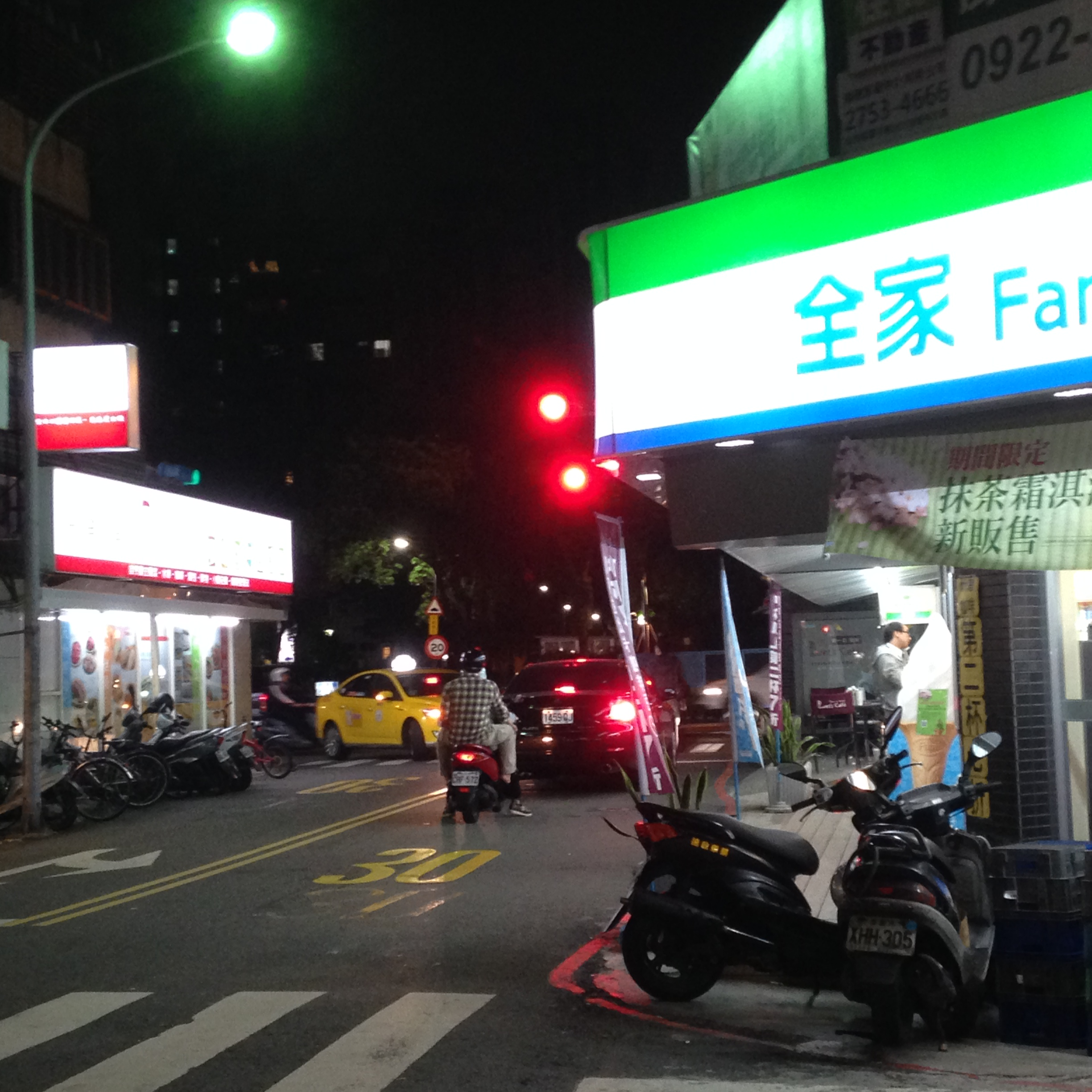 Convenience stores are extremely popular in Taiwan. In this picture, FamilyMart is on the right, while another convenience store is right across the street.